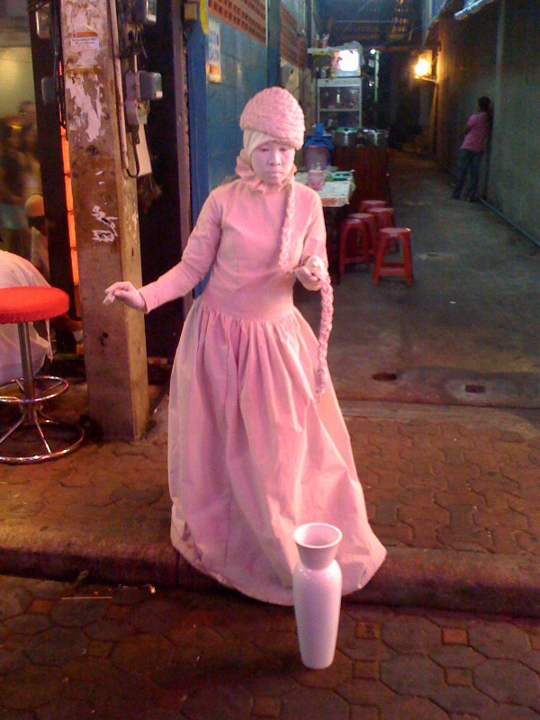 Mime on Walking Street